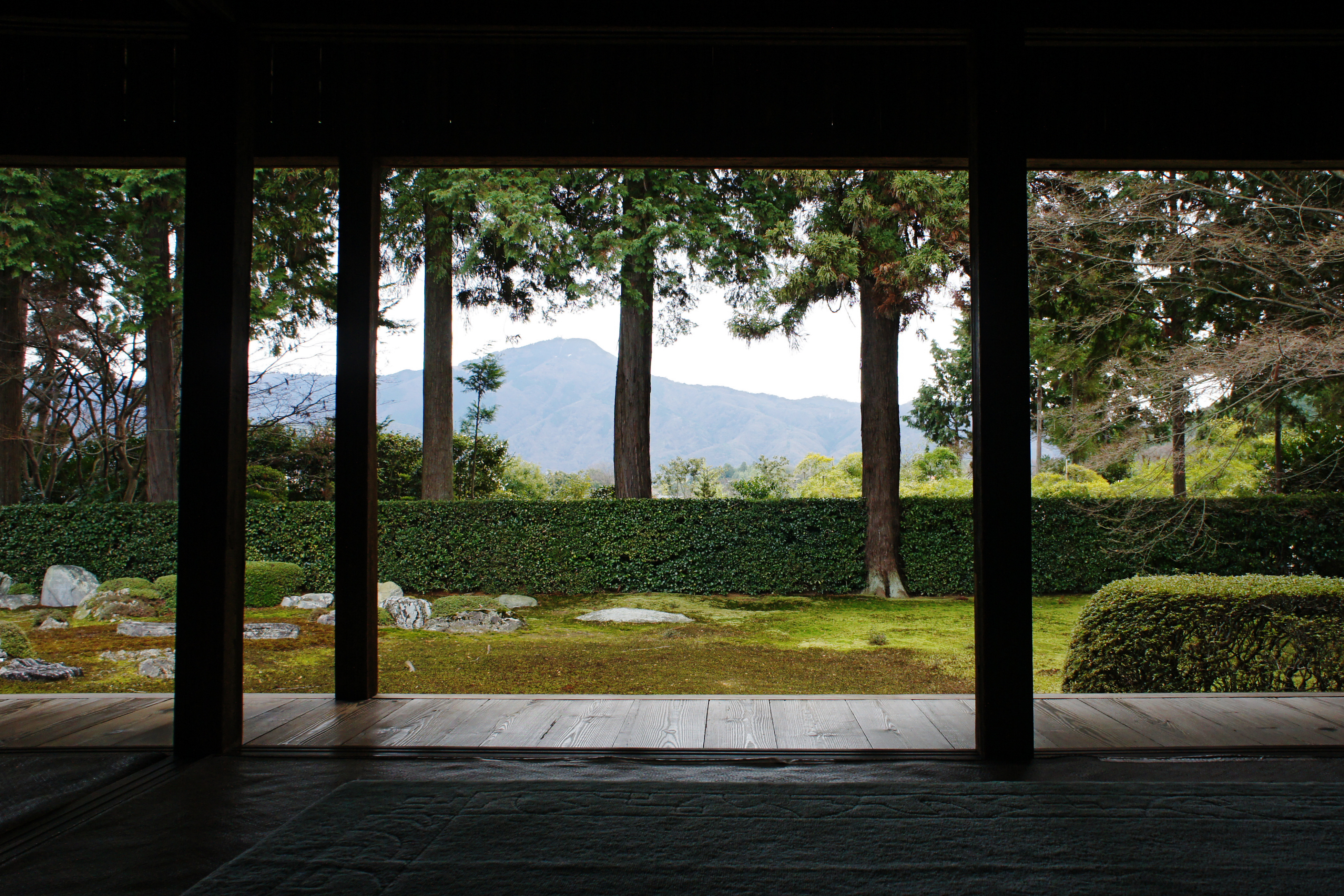 Entsu-ji in Kyoto, Kyoto prefecture, Japan.